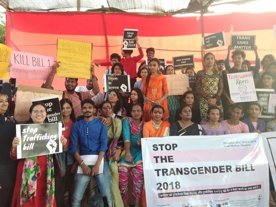 Members of the transgender community in India and allies protesting against the regressive provisions of the Transgender (Protection of Rights) Bill (No. 210-C of 2016), 2018, contrary to Supreme Court provisions in NALSA v. UOI (2013). Location: Mumbai, India Date: December 2018